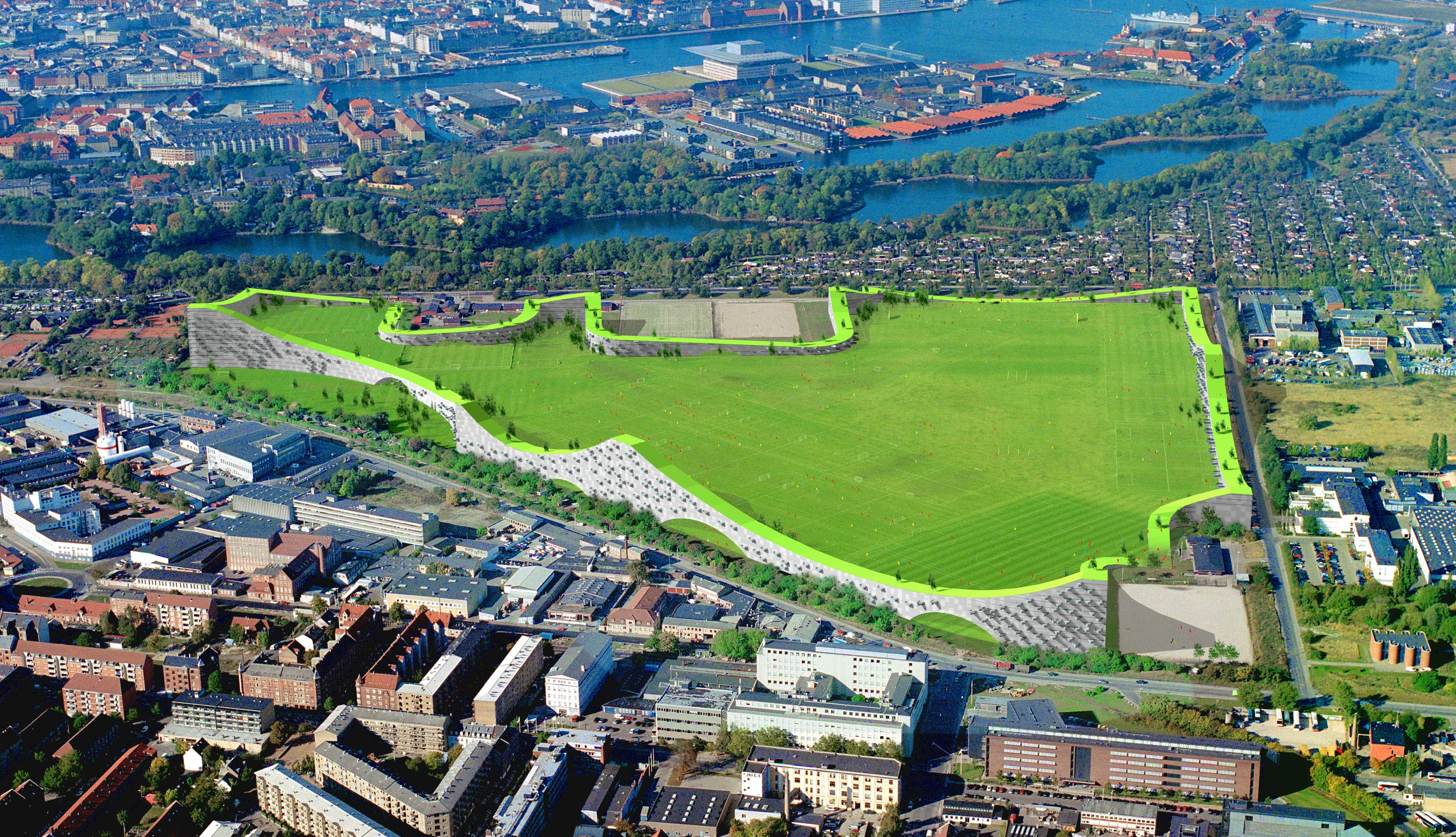 Plan of housing on Kløvermarken. Recording to the first plans the building should consist of 3-15 floors. In order to obtain majority at city hall the building is planned to be somewhat lower and have 2000 instead of 3000 apartments.